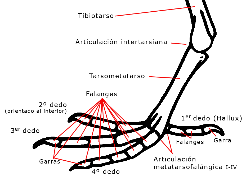 Pigeon leg bones (labels in Spanish)